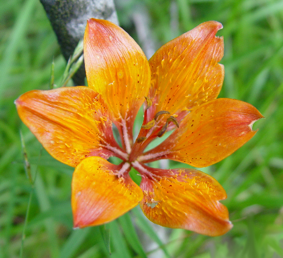 Lilium bulbiferum in habitat, Tyrol, Austria